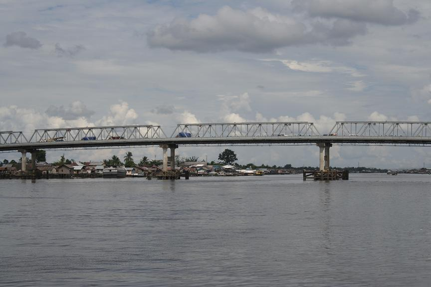 Kapuas Bridge in the afternoon